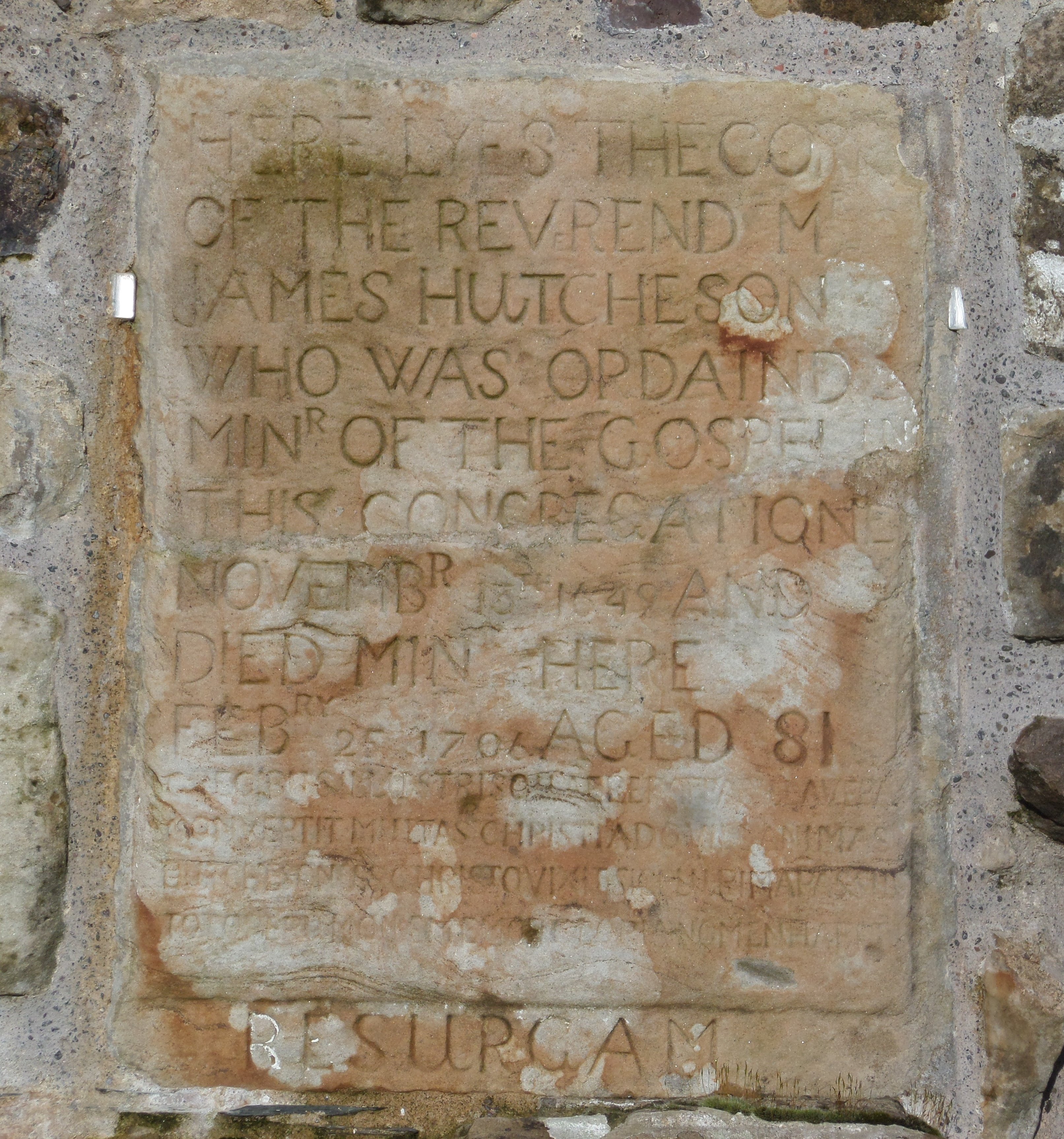 St Fillan's Kirk, Kilallan, Renfrewshire - memorial to a kirk minister on the south wall.